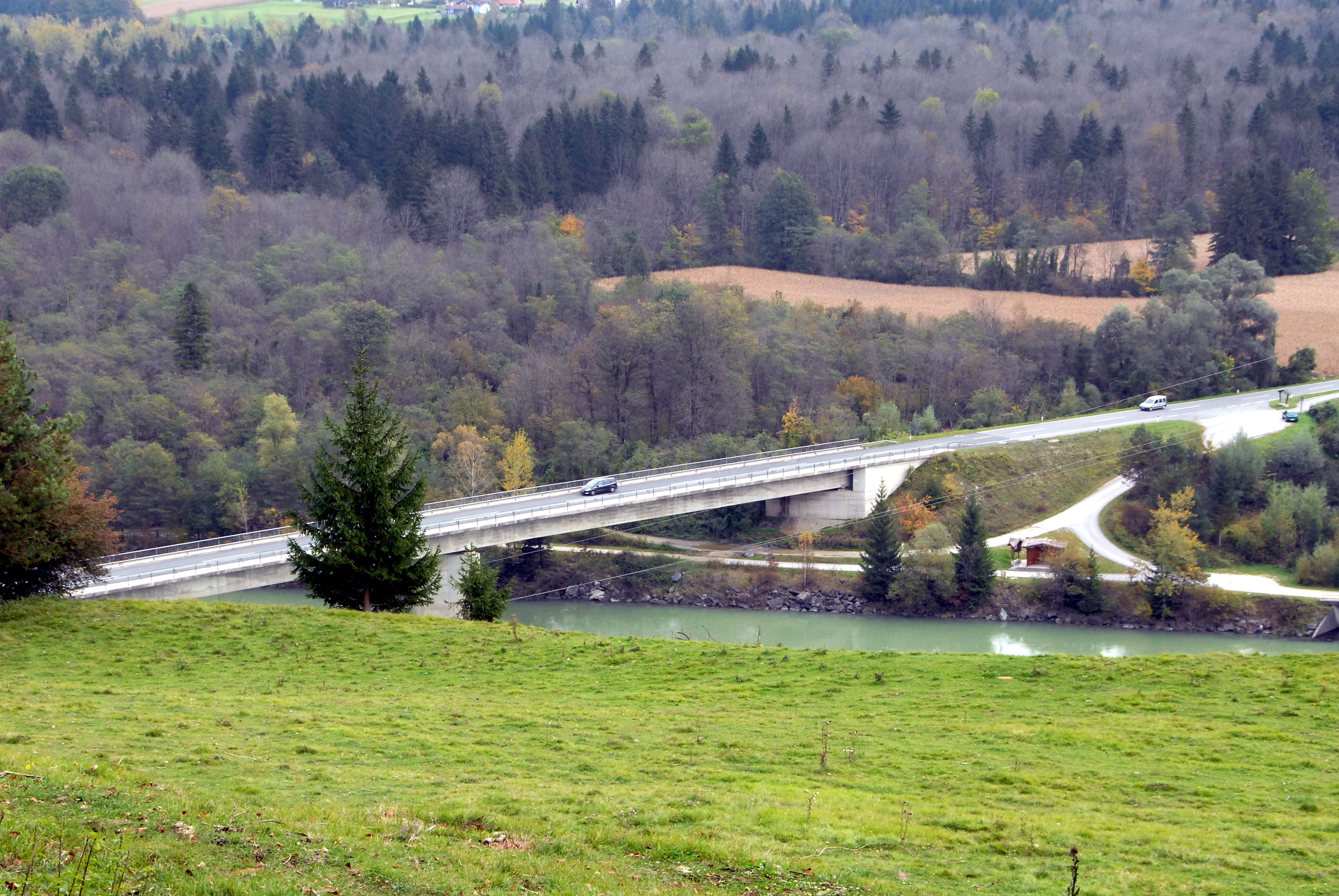 Bridge across the river Drau, the so-called “Anna-bridge” in the community Grafenstein, district Klagenfurt Land, Carinthia, Austria